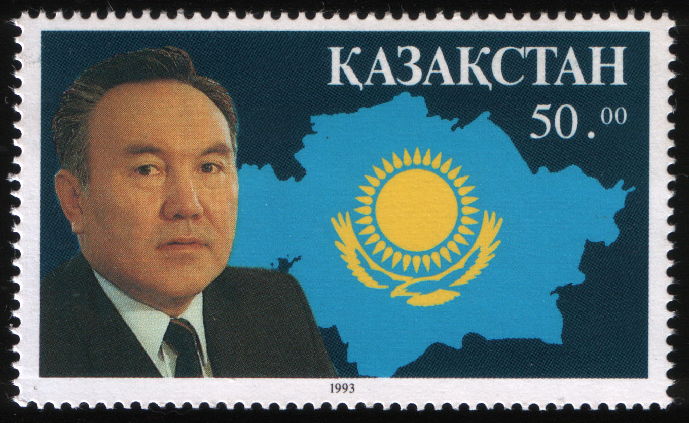 Stamp of Kazakhstan, First Kazakhstani president Nursultan Nazarbaev, 02.08.1993, 50 r. Designed by T. Nittner based on photo by A. Ustinenko & I. Budnevich (KAZTAG). Offset, coated paper. Comb perf. 13.75. Size 55x33 mm. 5x5=25 stamps per sheet. Circ. 1.2 mln.